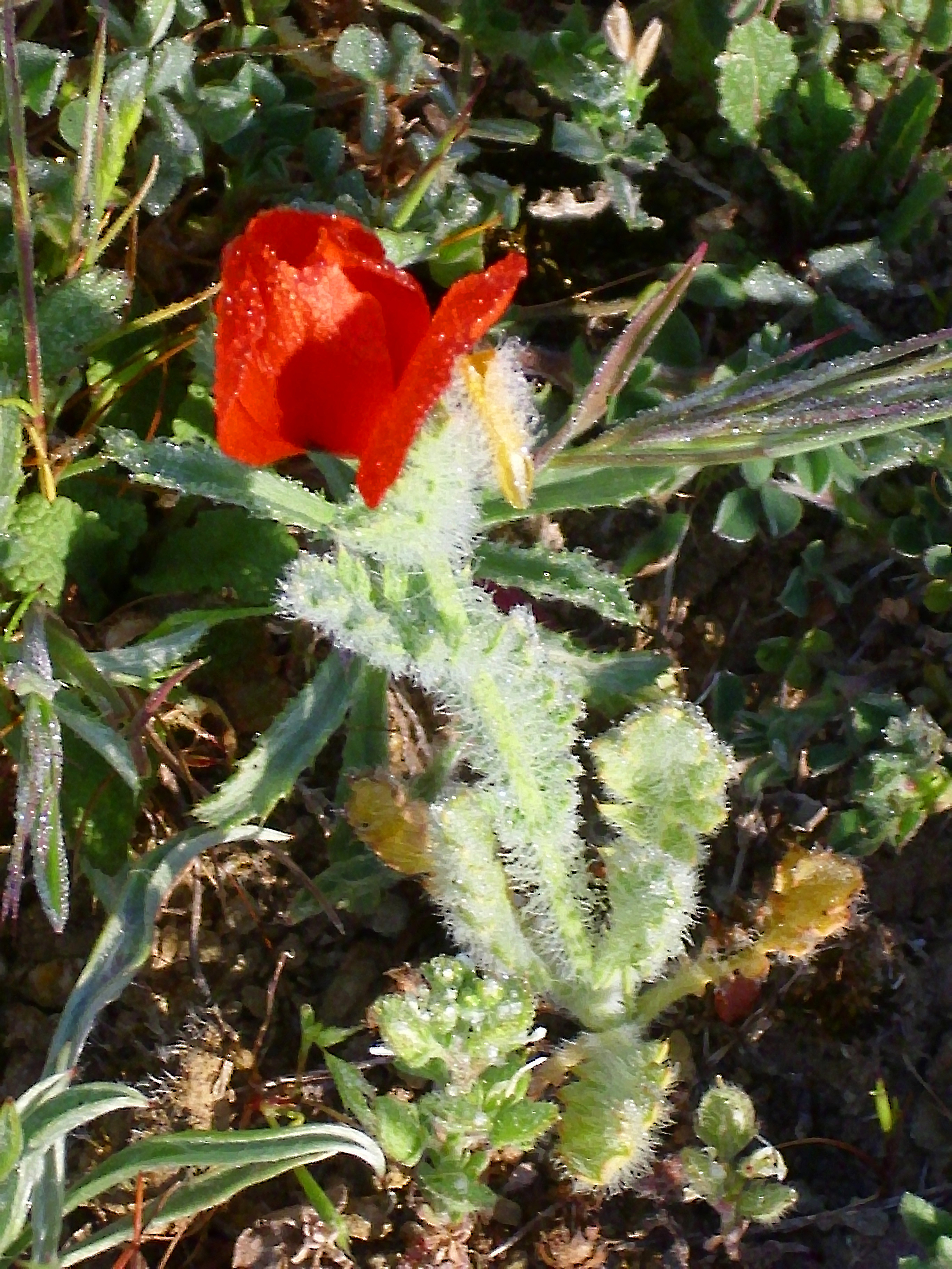 Glaucium corniculatum ssp. habit Campo de Calatrava, Spain